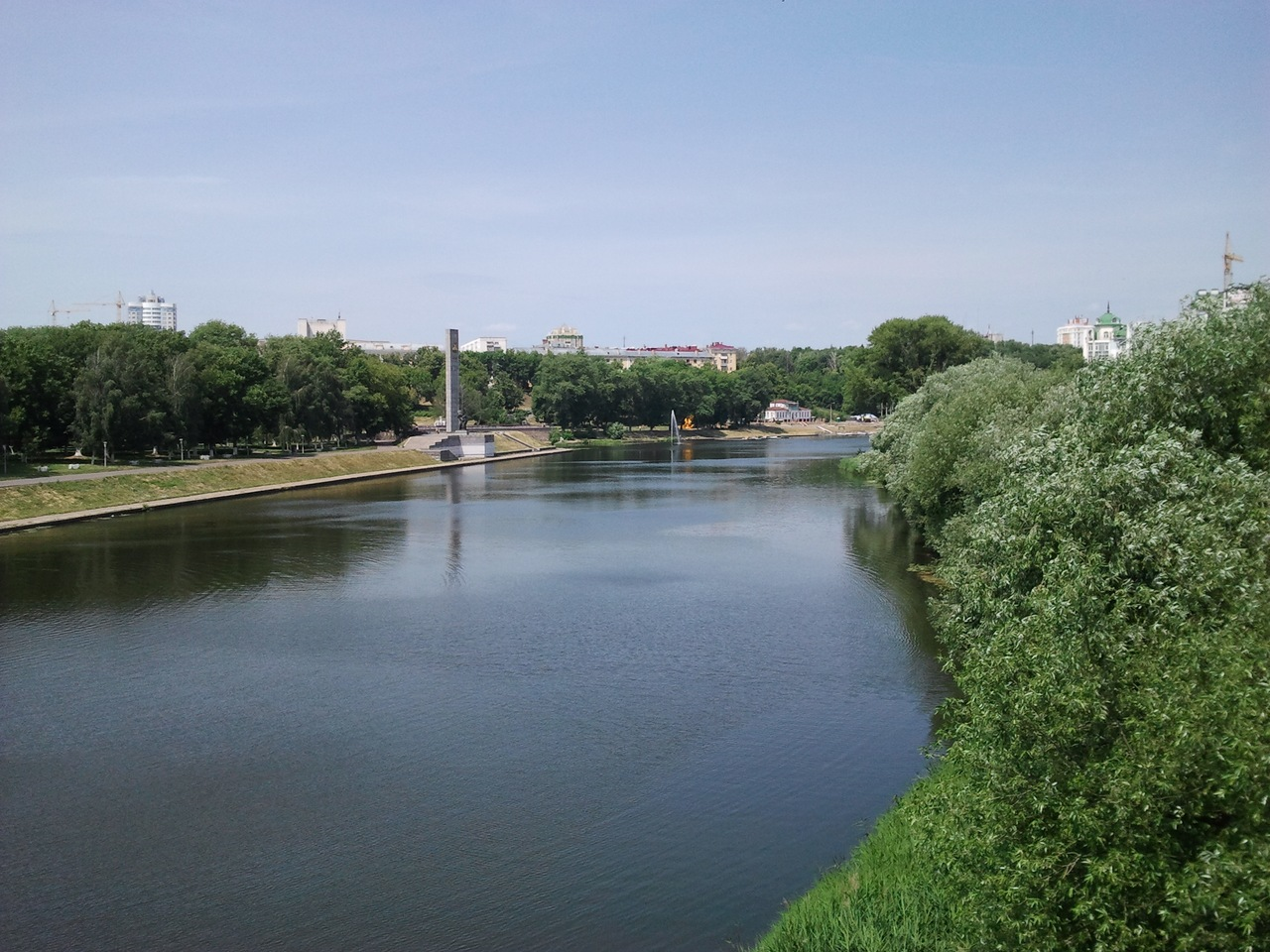 Oryol